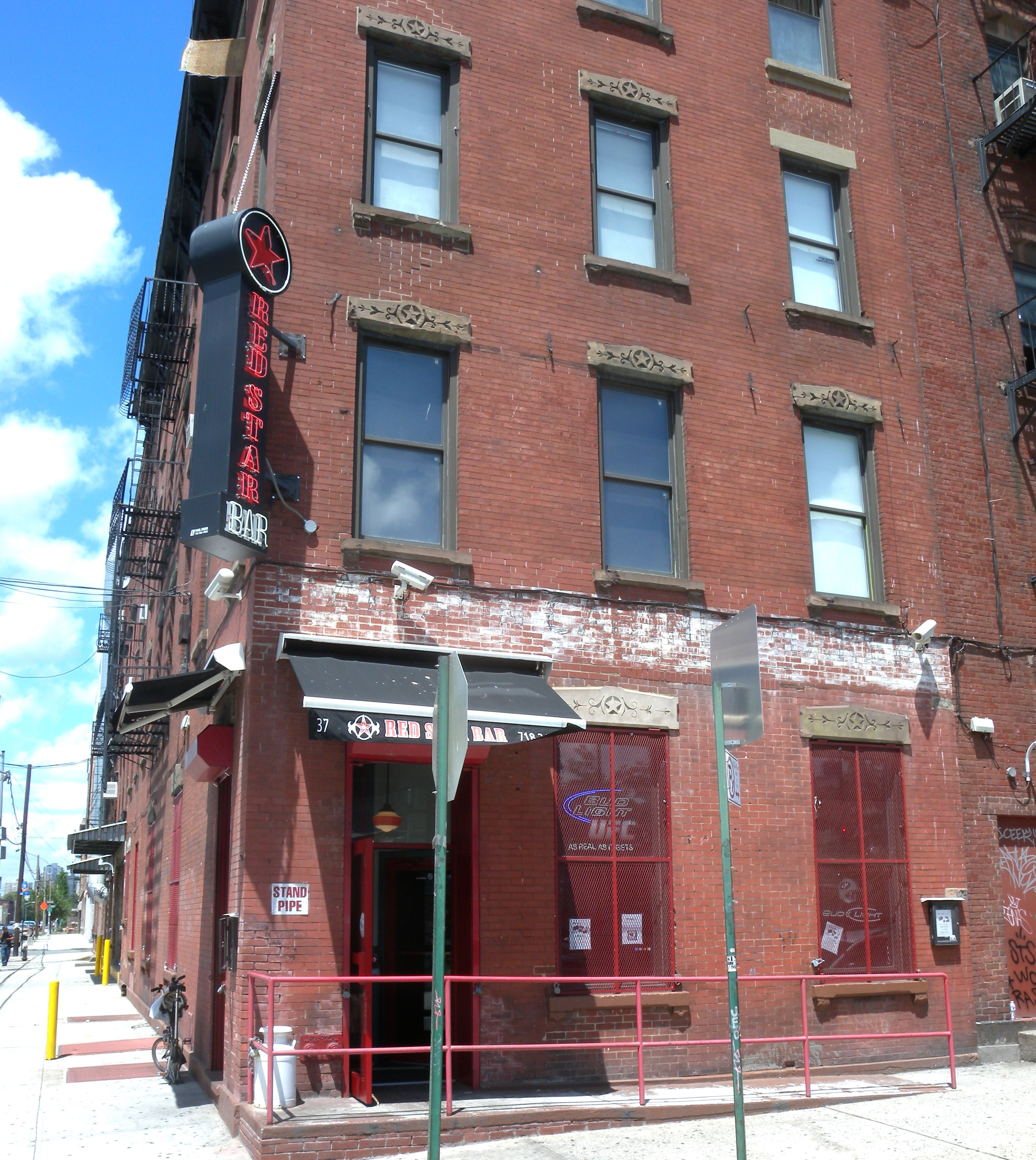 Looking north across Greenpoint Ave at Red Star Bar displaying Eberhard Faber stars on a sunny midday.